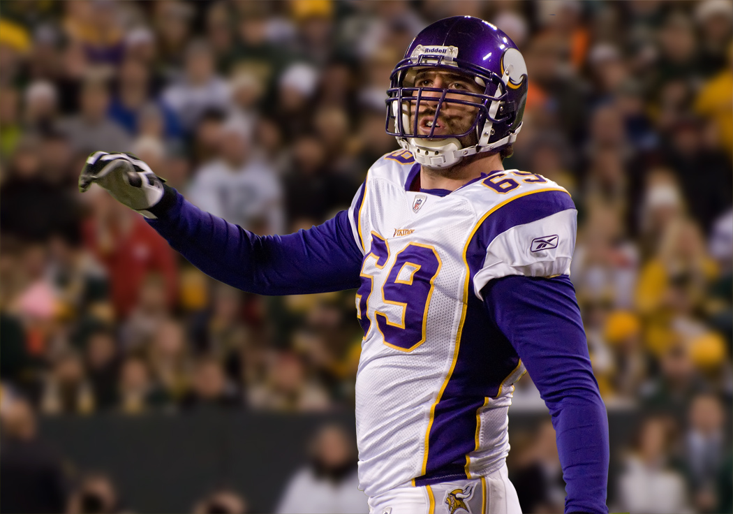 Minnesota Vikings vs. Green Bay Packers at Lambeau Field on Monday Night, November 14, 2011. Photo by Mike Morbeck.